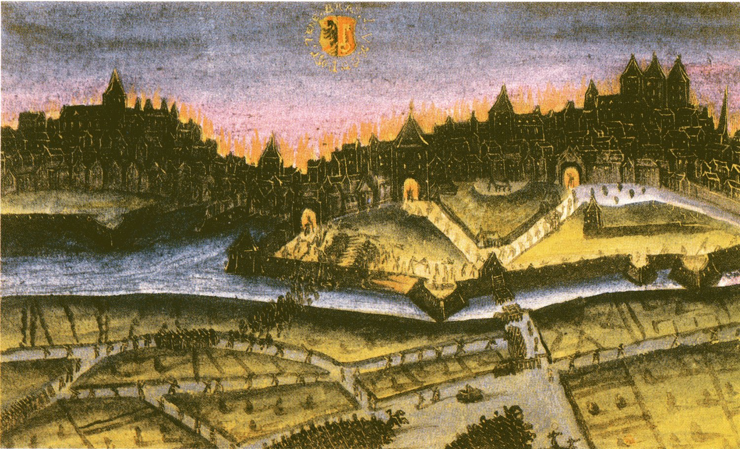 The Escalade in Geneva